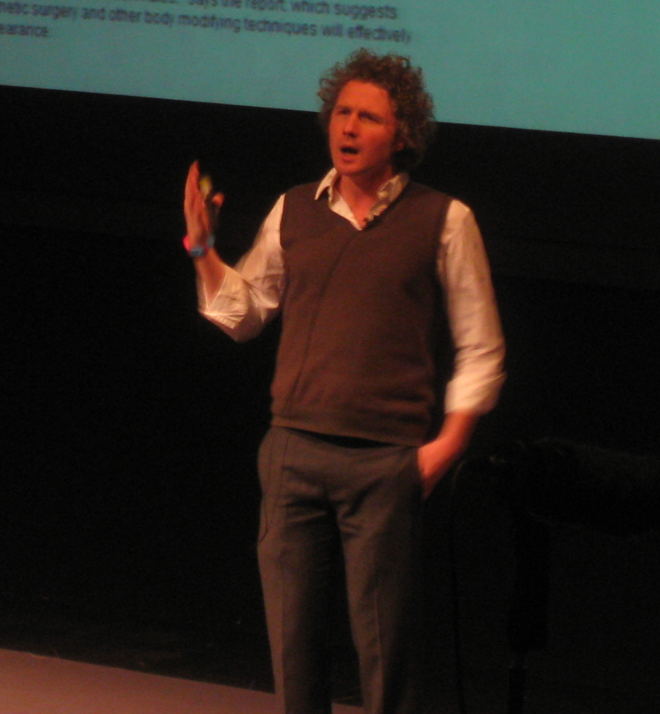 Dr Ben Goldacre in his customary Dr Who-style garb. This photo was taken on October 3, 2009 at TAM London in Blackfriars, London